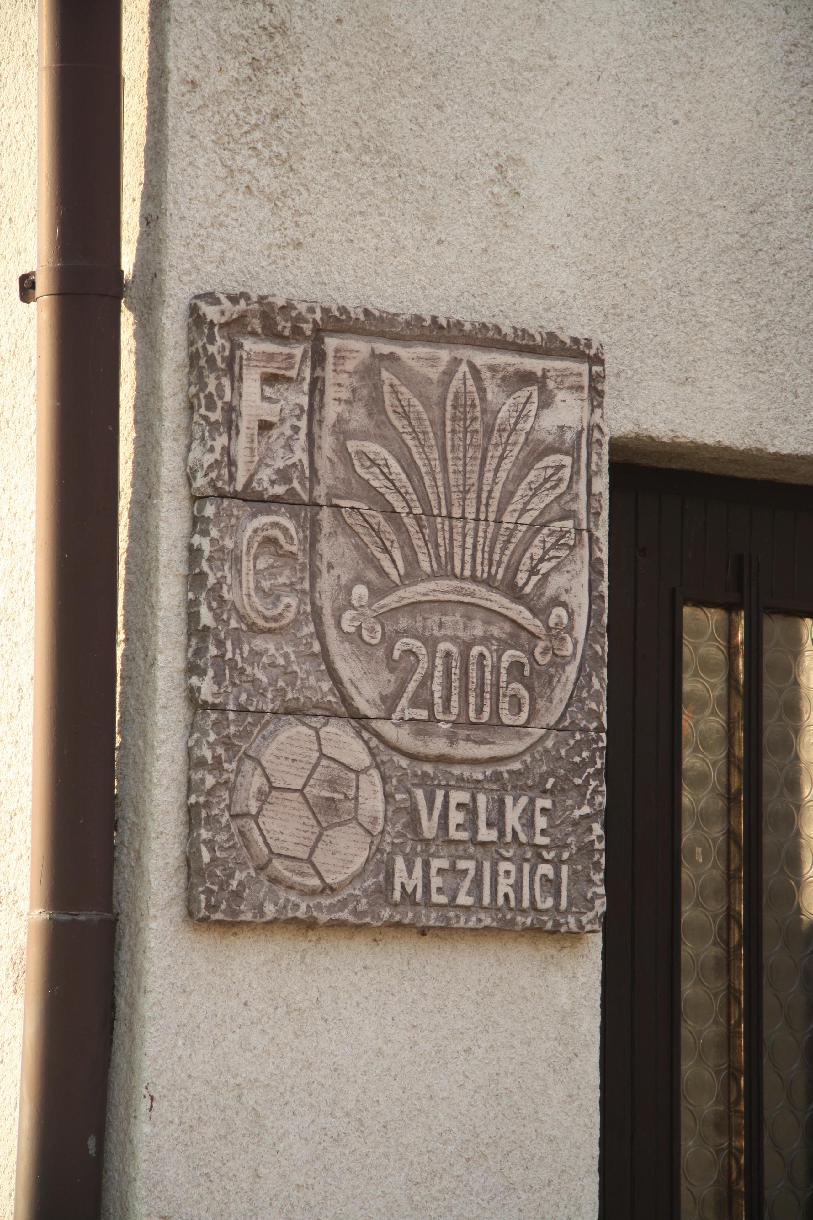 Plaque of FC Velké Meziříčí in Velké Meziříčí, Žďár nad Sázavou District.